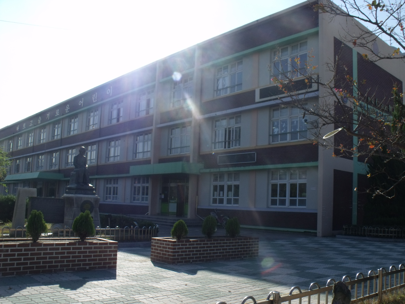 inji 1 dong